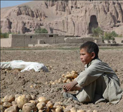 Per original: "A boy collects potatoes in Bamiyan Province in central Afghanistan. In the background stands the empty niche carved in the mountain where a giant Buddha statue stood more than 110 feet tall for 15 centuries until the Taliban blew it up six months prior to the 9/11 attacks on America."